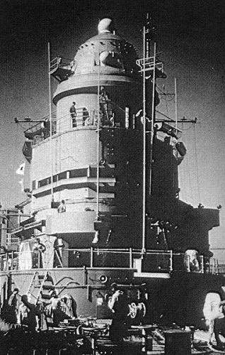 View of the AN/SPG-59 passive electronically scanned array radar aboard USS Norton Sound (AVM-1), in 1963. AN/SPG-59 was of the Typhon combat system.